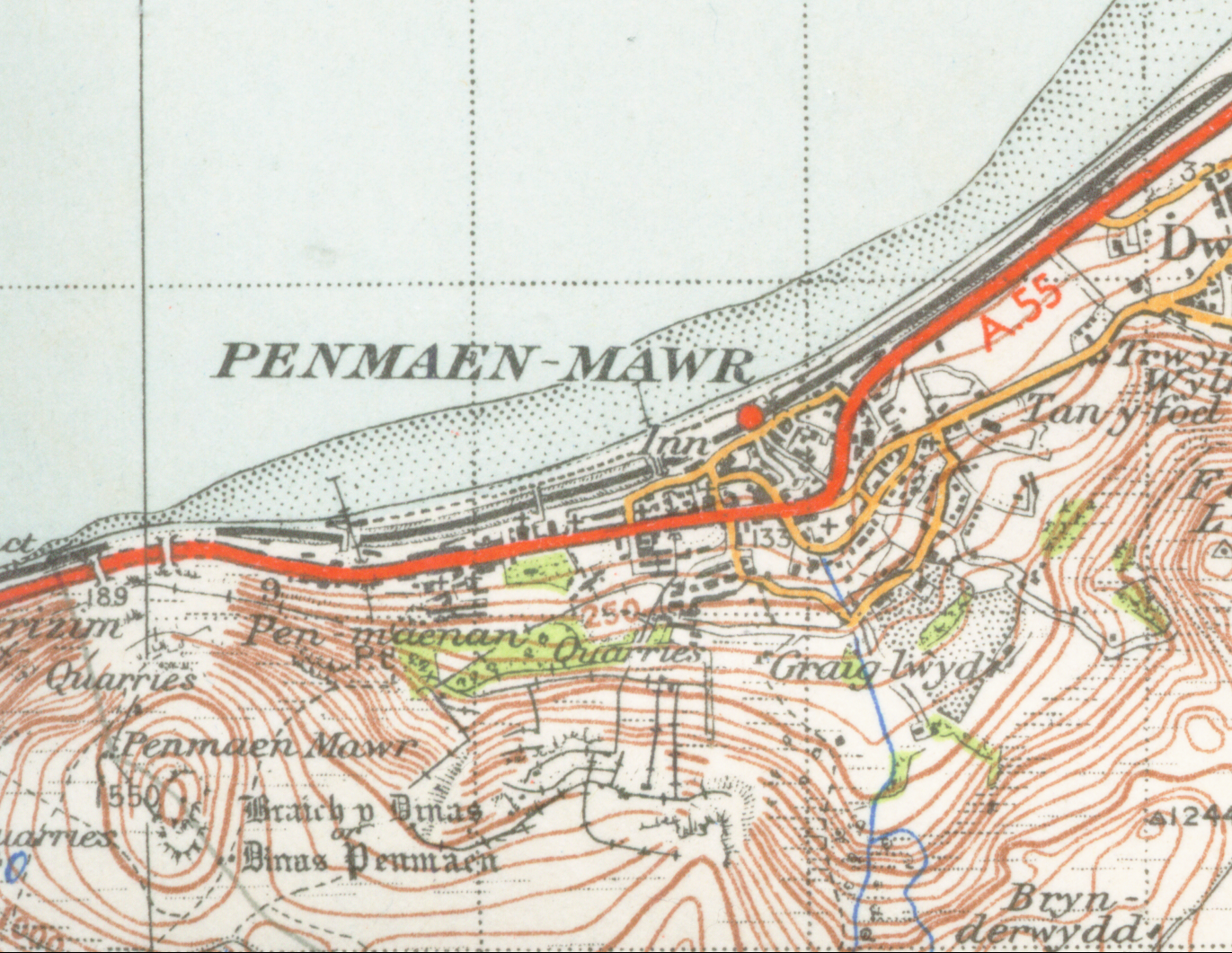 Map of Penmaenmawr from 1947. Scale 1 inch to the mile 600DPI Sheet 107 "Snowdon"